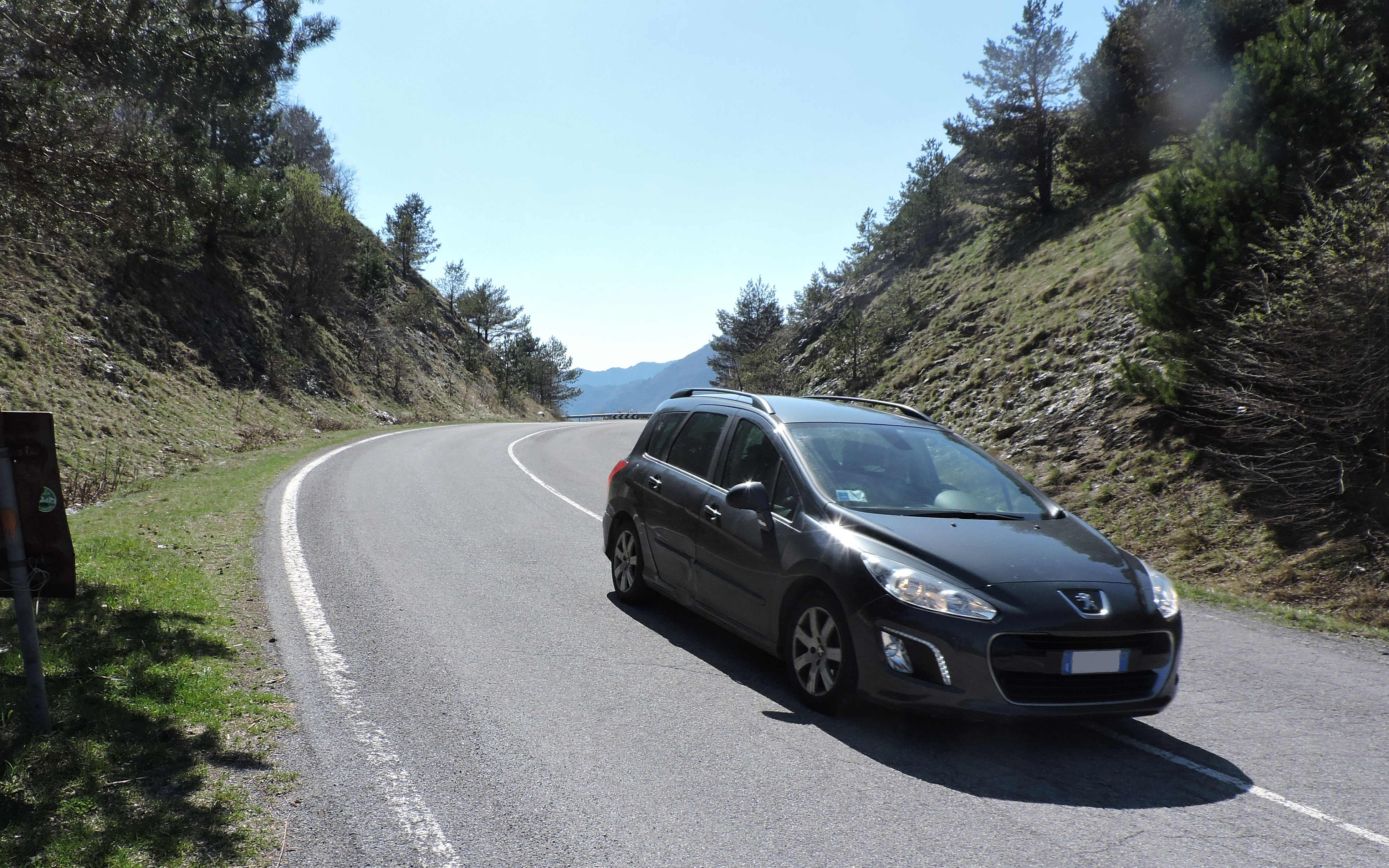 Colle Scravaion (SV, Italy): Bormida side